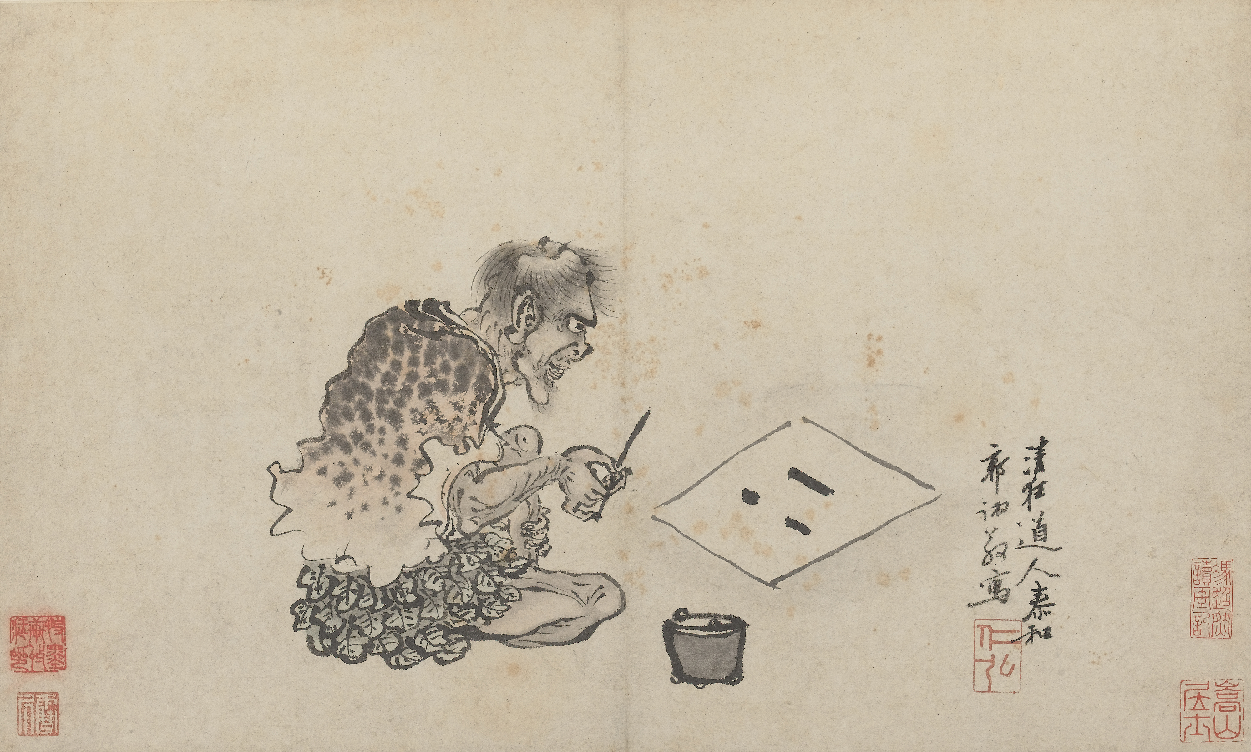 This painting depicts Fuxi as he looks at the trigram that he has drawn, illustrating the belief that this ancient sage discovered the eight trigrams.